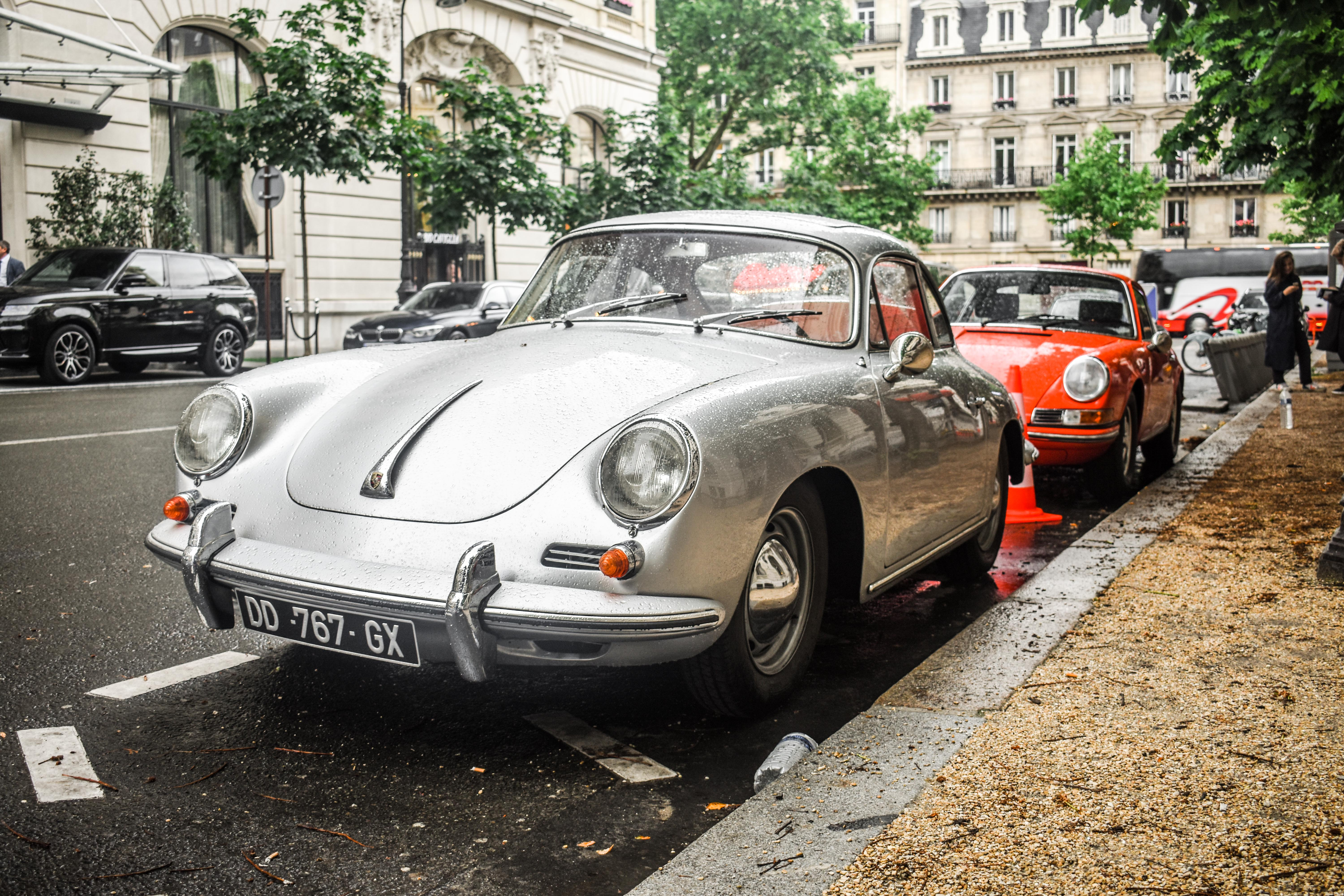 Porsche 356 in Paris